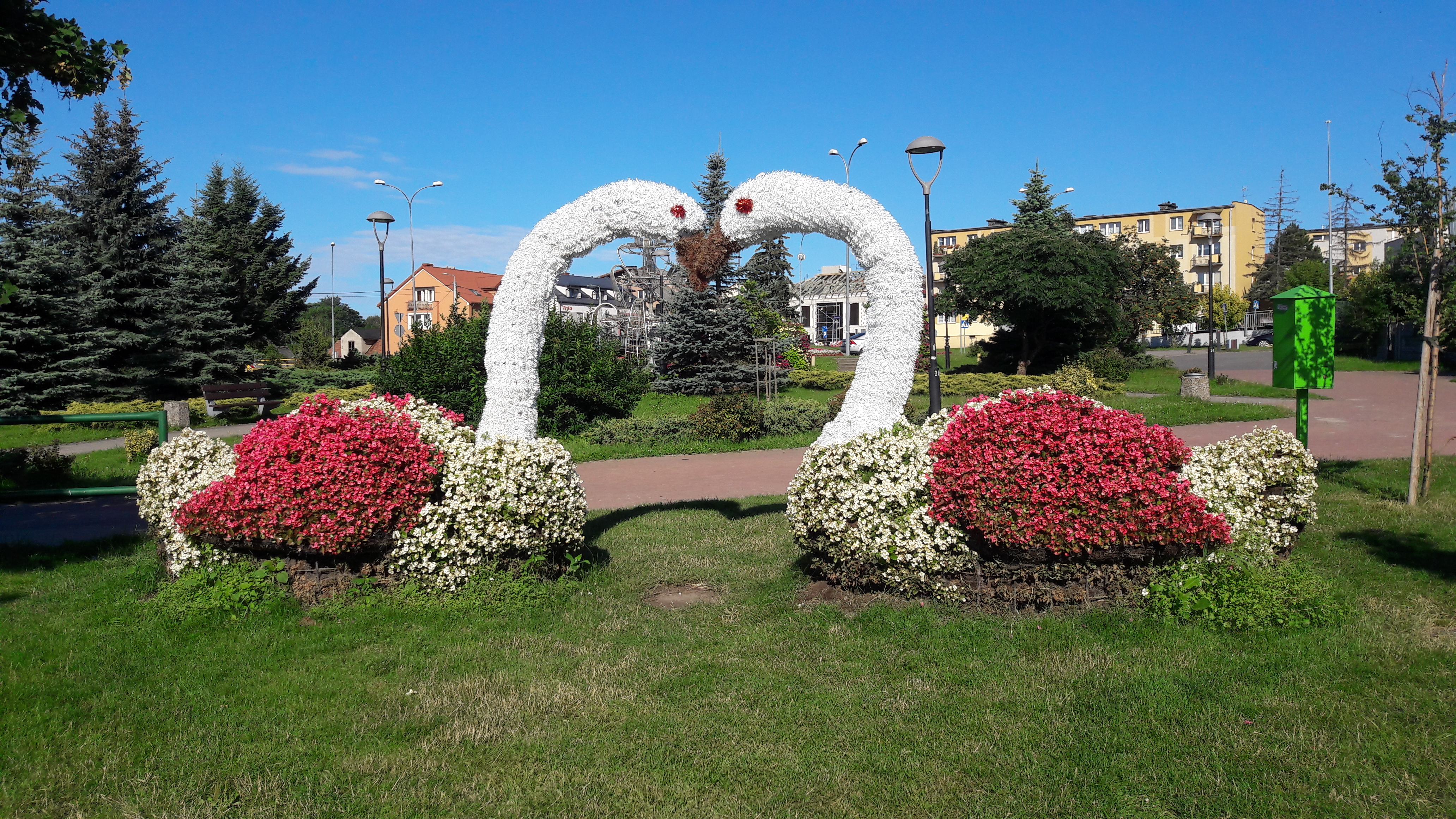 Łabędzie z kwiatów